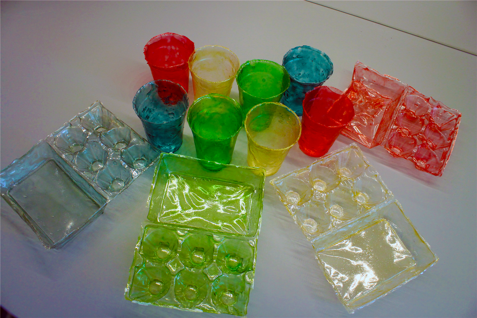 Large three-dimensional objects made of chitosan